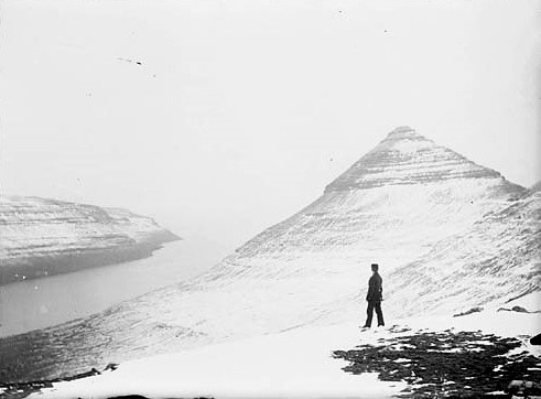 Steamship Klaksvík, Faroe Islands